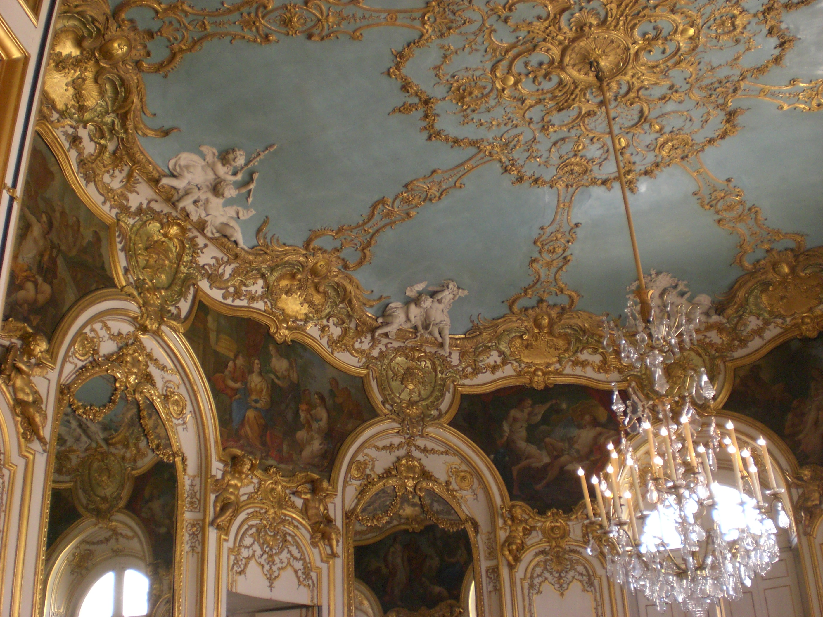 Paris, Hôtel de Soubise, Oval Chamber